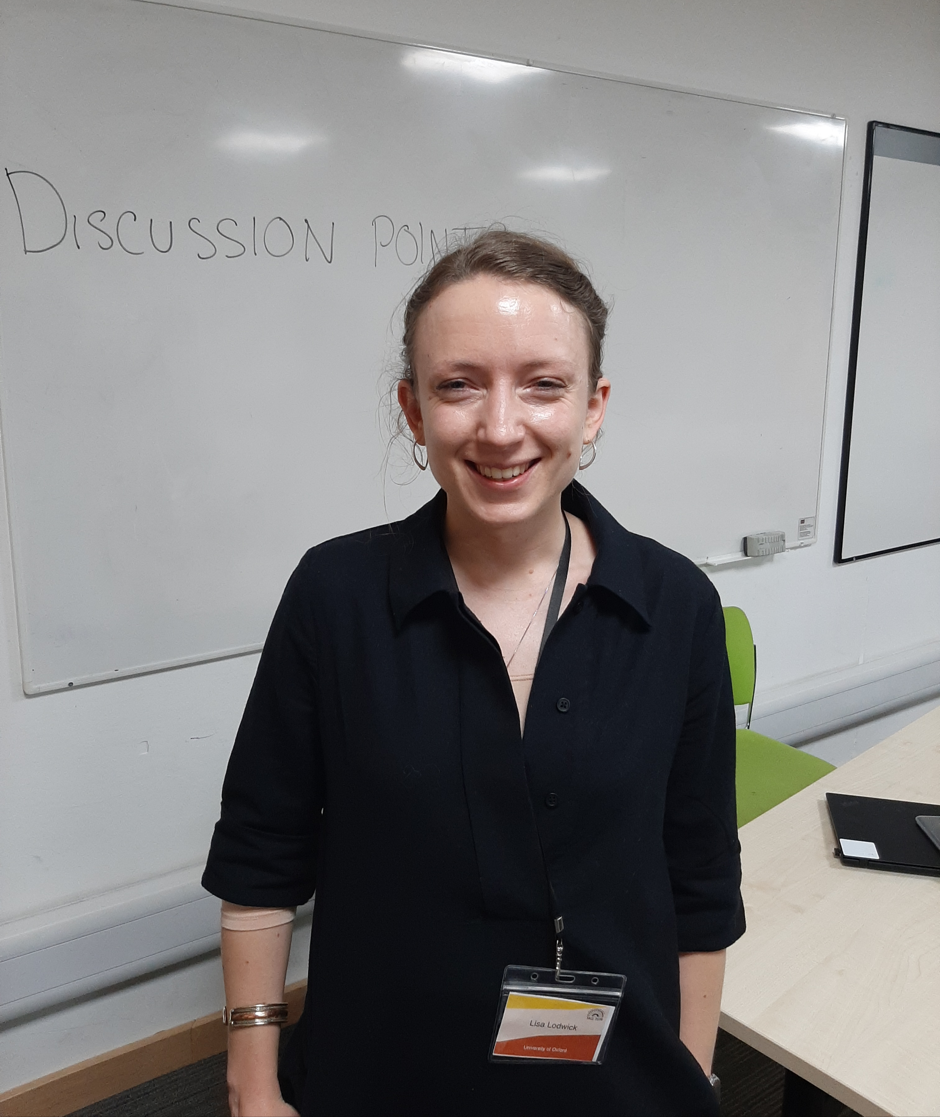 Dr Lisa Lodwick at the Theoretical Archaeologt Group meeting, UCL, December 2019